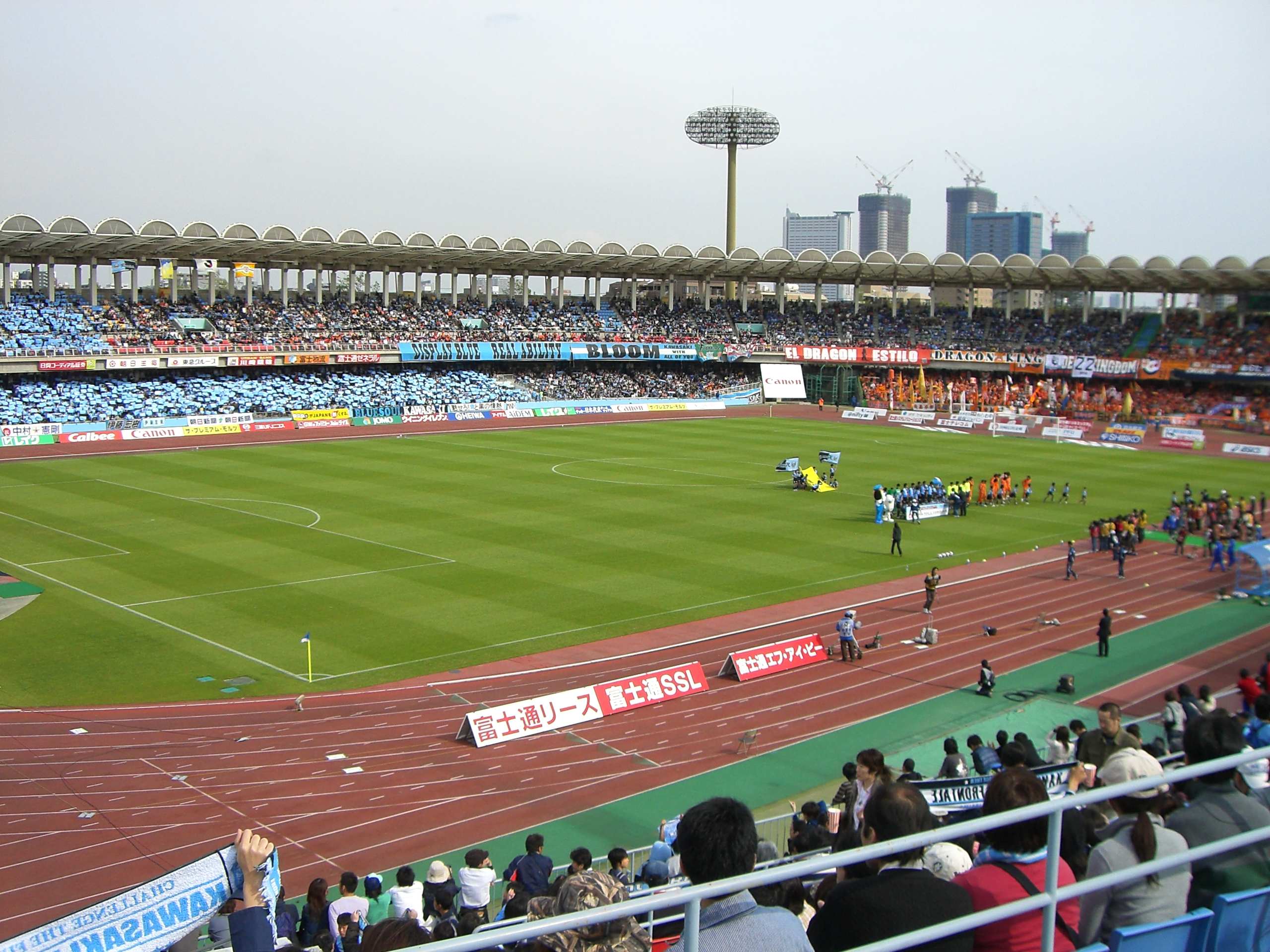 Todoroki stadium. Nakahara-ku,Kawasaki-shi,Kanagawa-ken,Japan